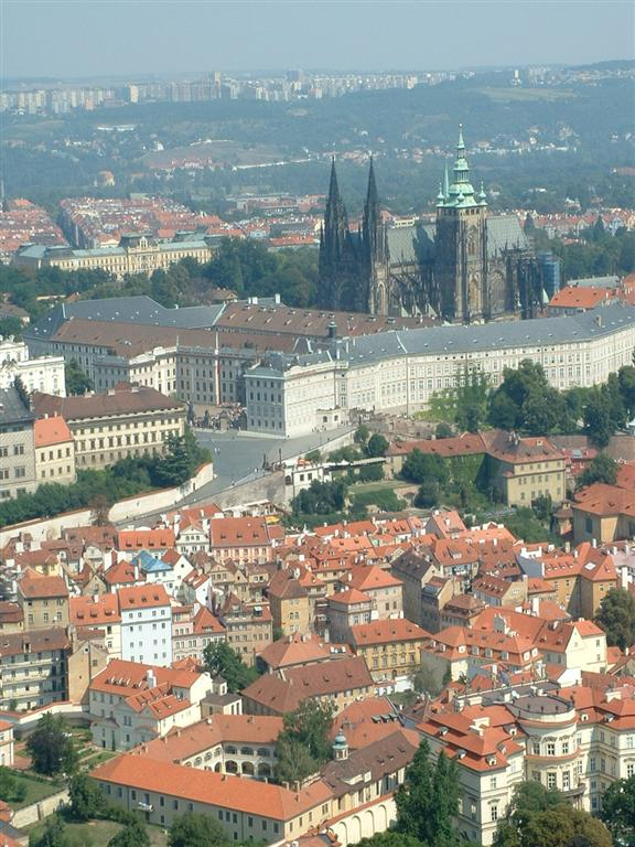 Hradcany from Petrin Tower.